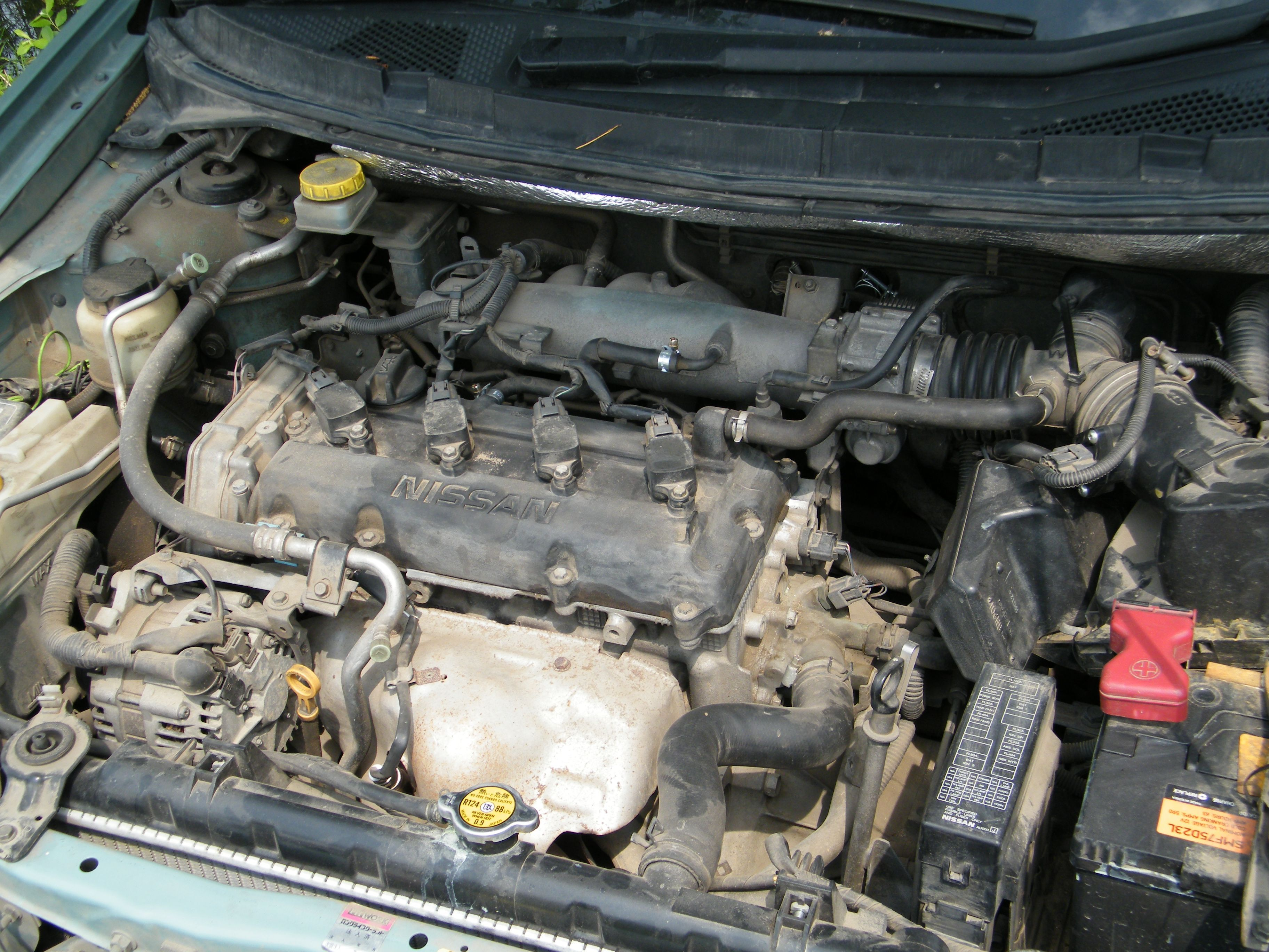 Четырехцилиндровый двигатель Ниссан